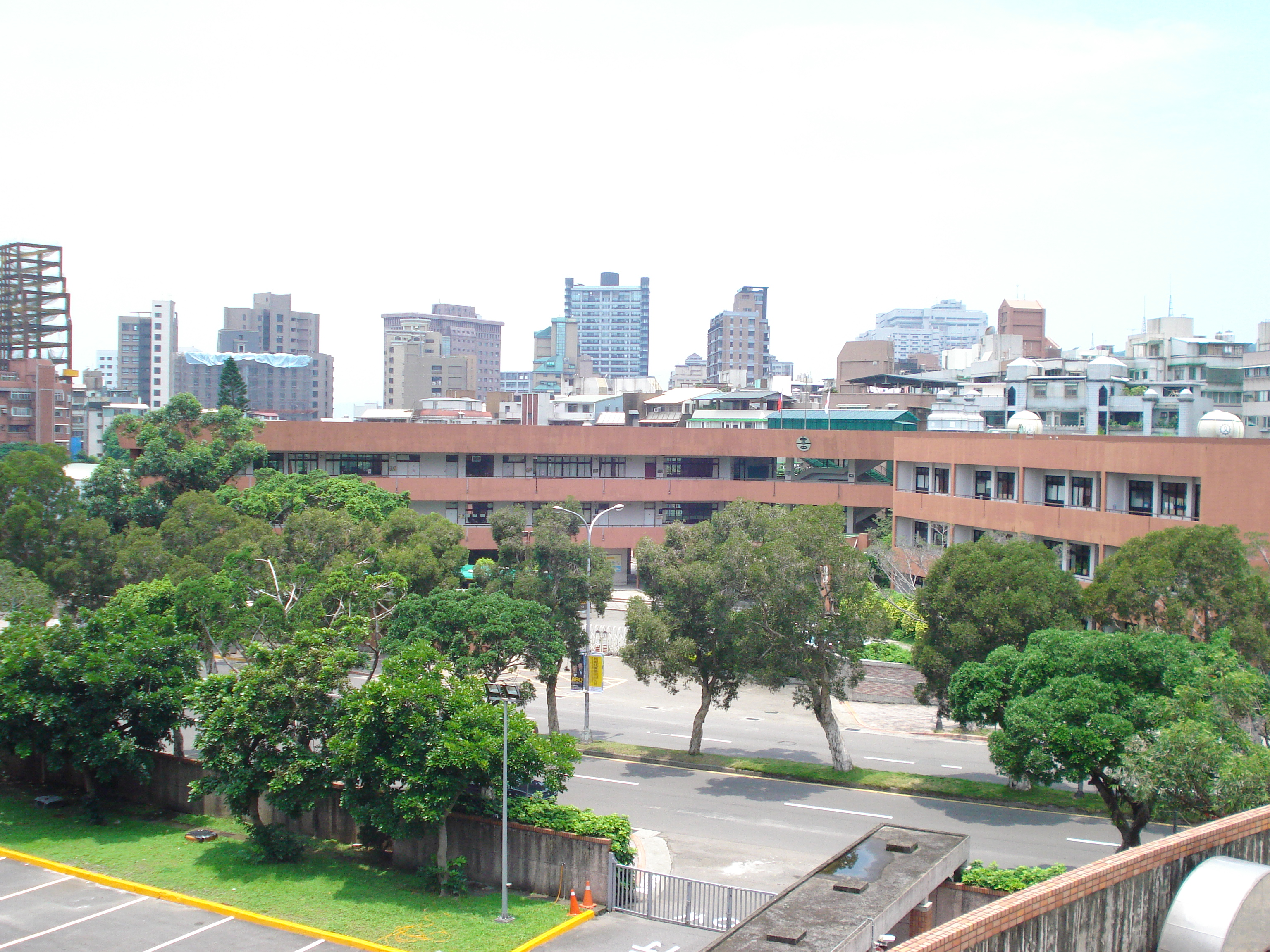 A view of the Taipei Japanese School from the Taipei American School